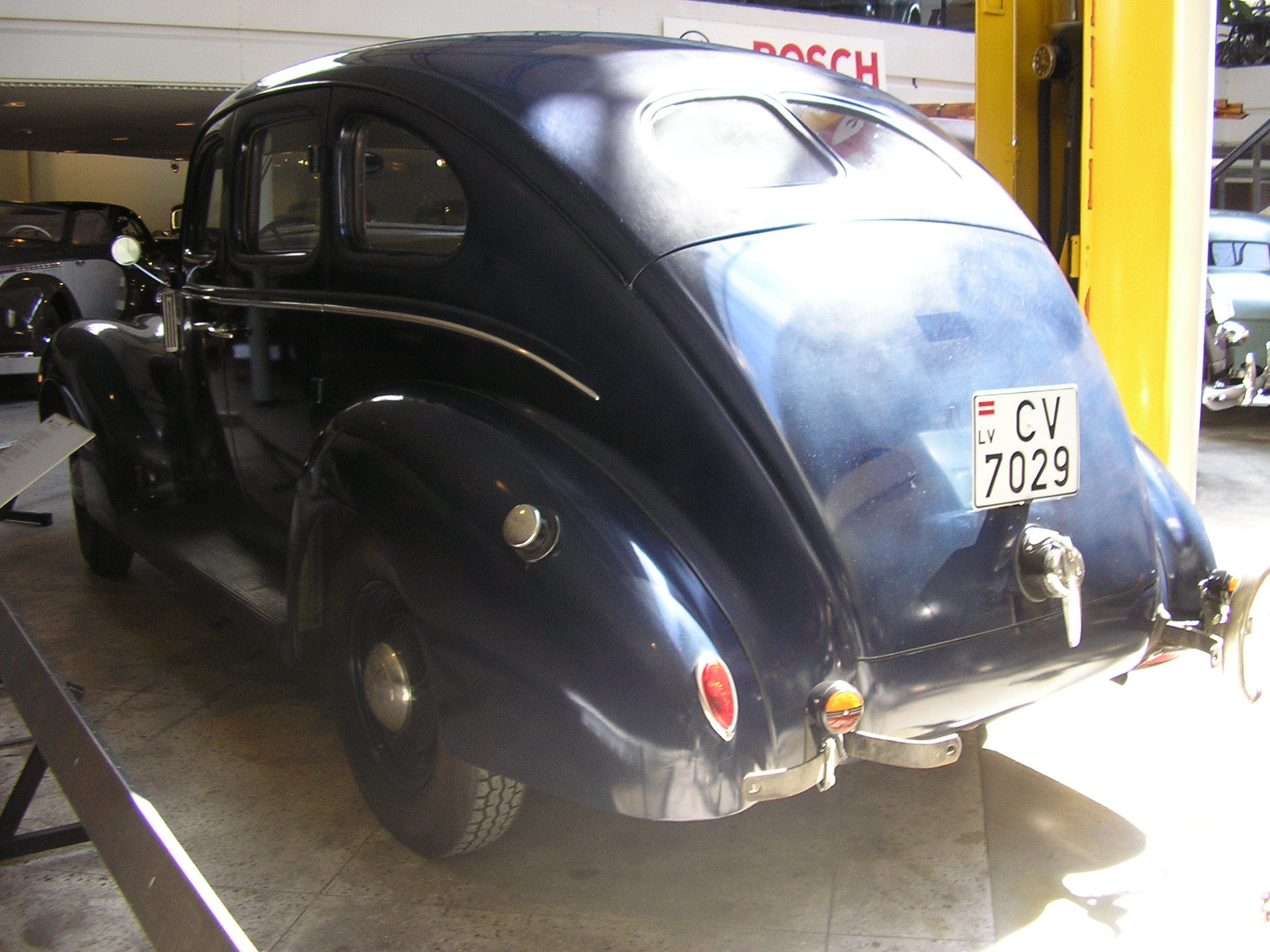 A 1938 Ford-Vairogs V8 "De Luxe" mod. 81A. The side valve V8 has a capacity of 3621 cc and gives 85 hp and a top speed of 130 km/h. The total weight of the car is 1493 kg.